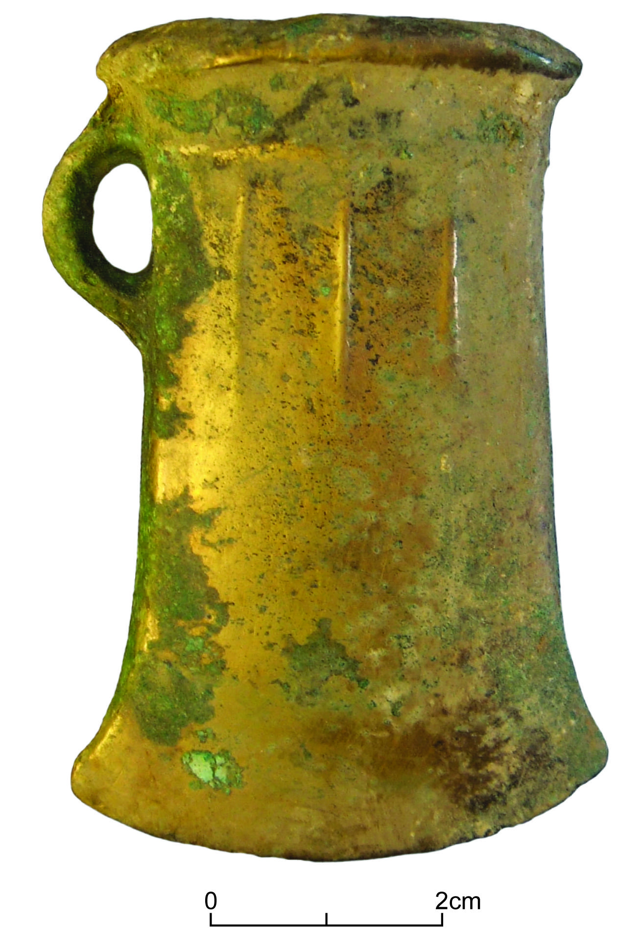 Bronze axehead from the Driffield Hoard. Probably from Driffield Hoard I.